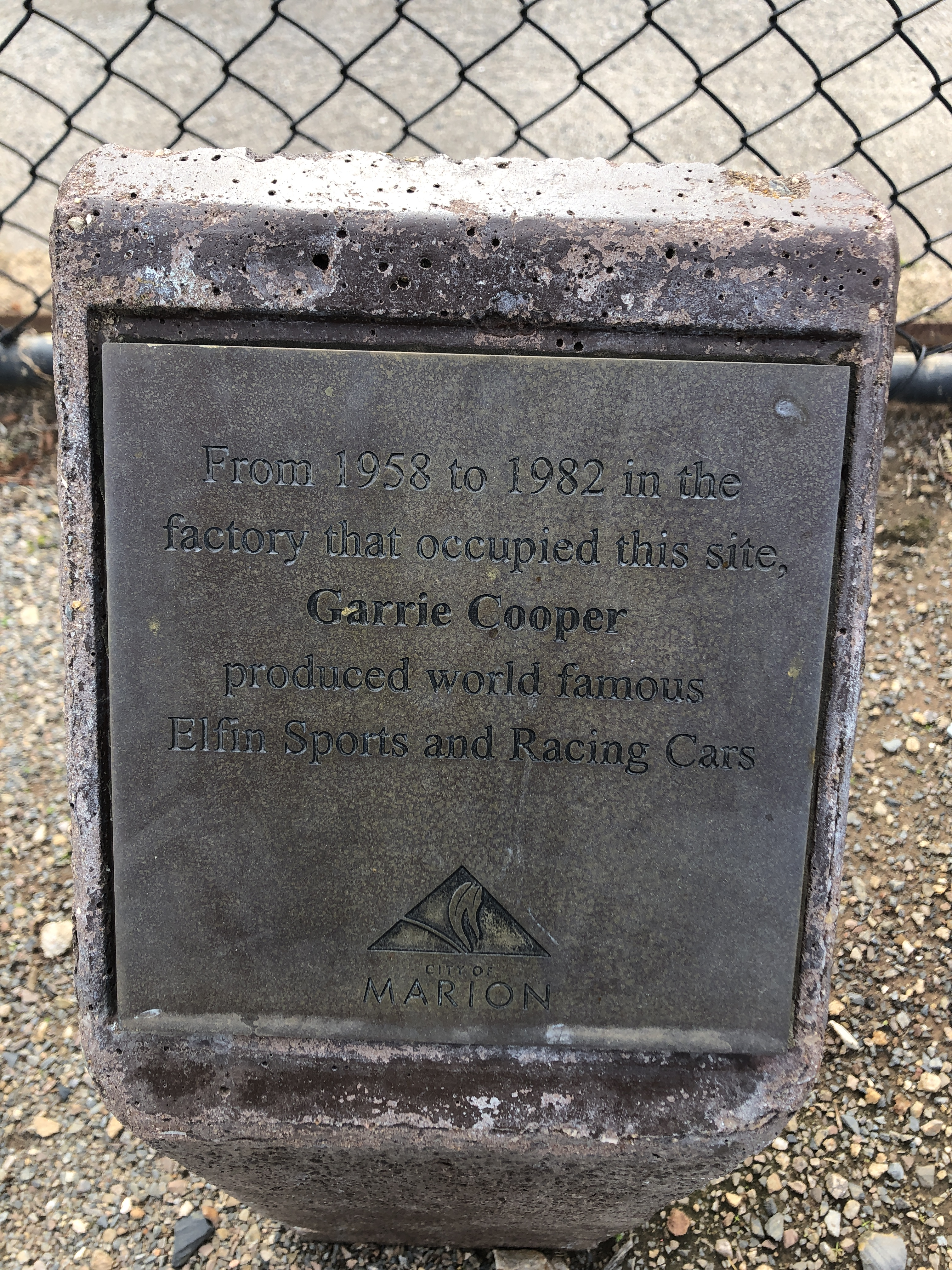 Plaque at Conmurra Avenue Edwardstown, SA in rememberance of Elfin